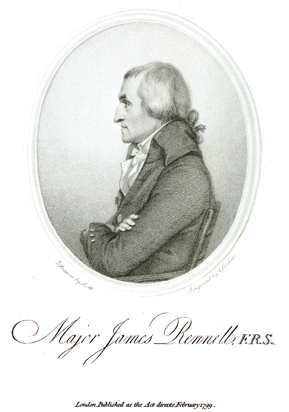 Engraving of James Rennell c. 1799.